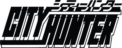 Japanese logo of City Hunter anime.